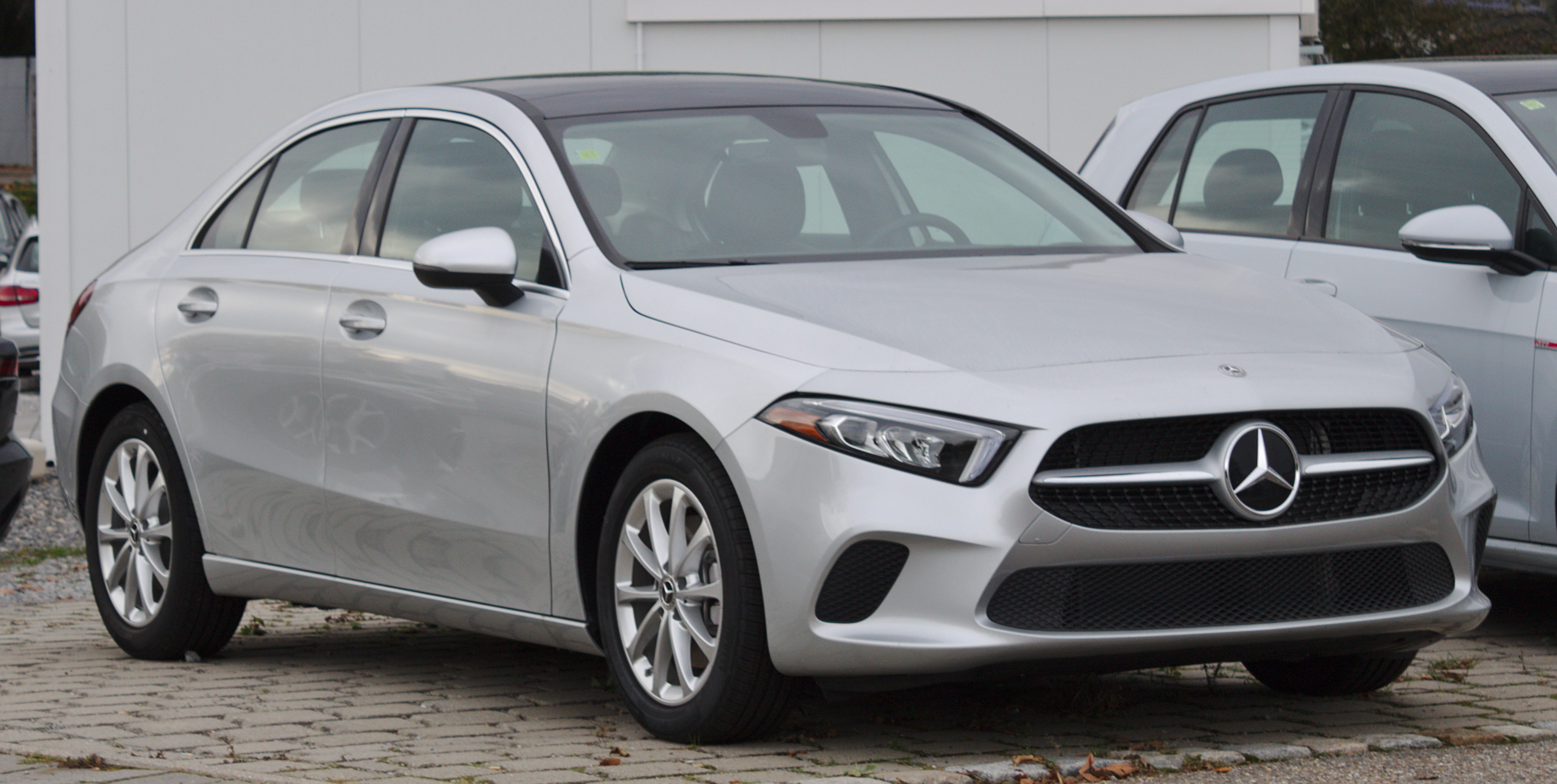 Mercedes-Benz_V177 in Stuttgart-Vaihingen